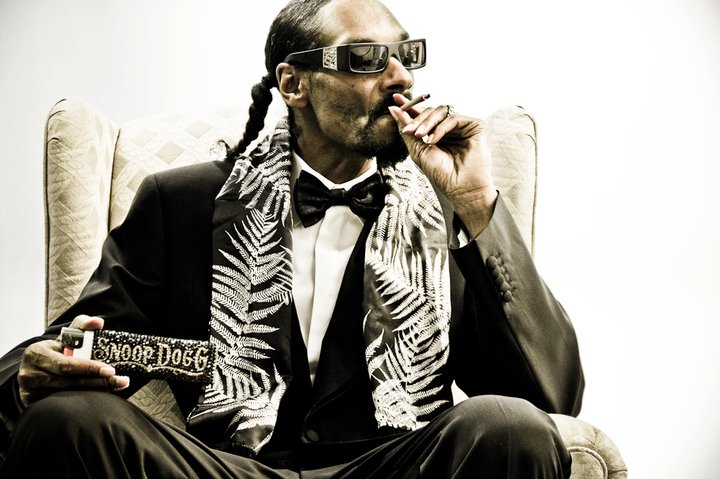 Snoop Dogg by Photographer Bob Bekian.